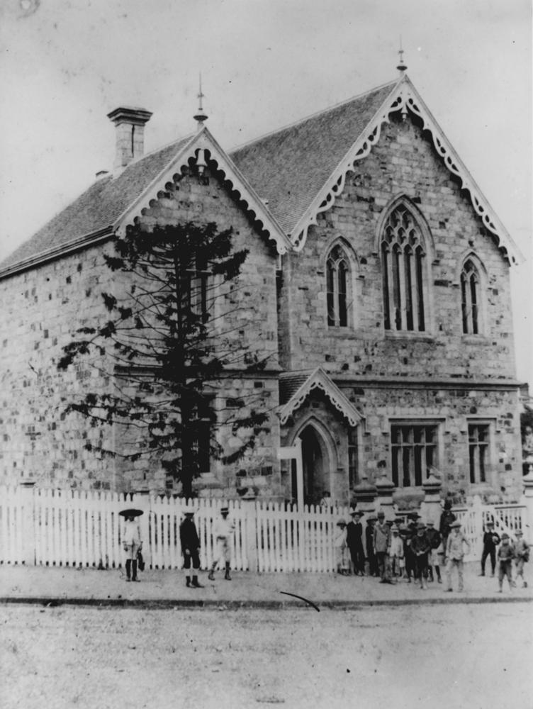 Normal School, Brisbane, ca. 1885. View from the street of the Normal School, Brisbane. The Normal School was established as the National School in April 1860, and was conducted as a co-educational school until the opening of a boys' building in December 1862. The school building was designed by Christopher Porter and built by Andrew Petrie. Christopher Porter arrived in Brisbane in 1860, and was invited by the Queensland Board of Education to tender for the position as the Board's first general architect.